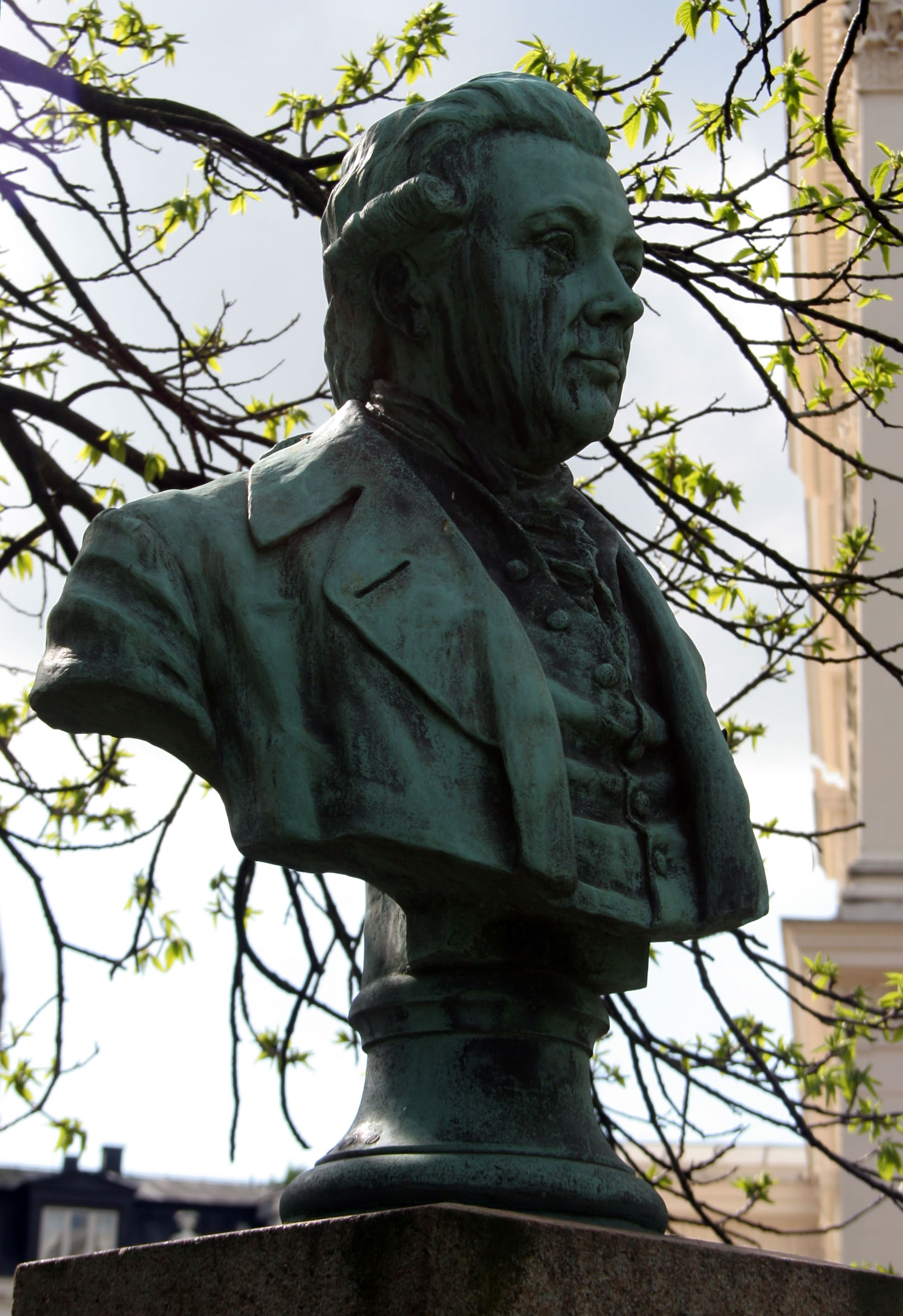 Anders Jahan Retzius, 1742–1821, Swedish chemist and naturalist. Bust is placed outside of the main building of University of Lund.